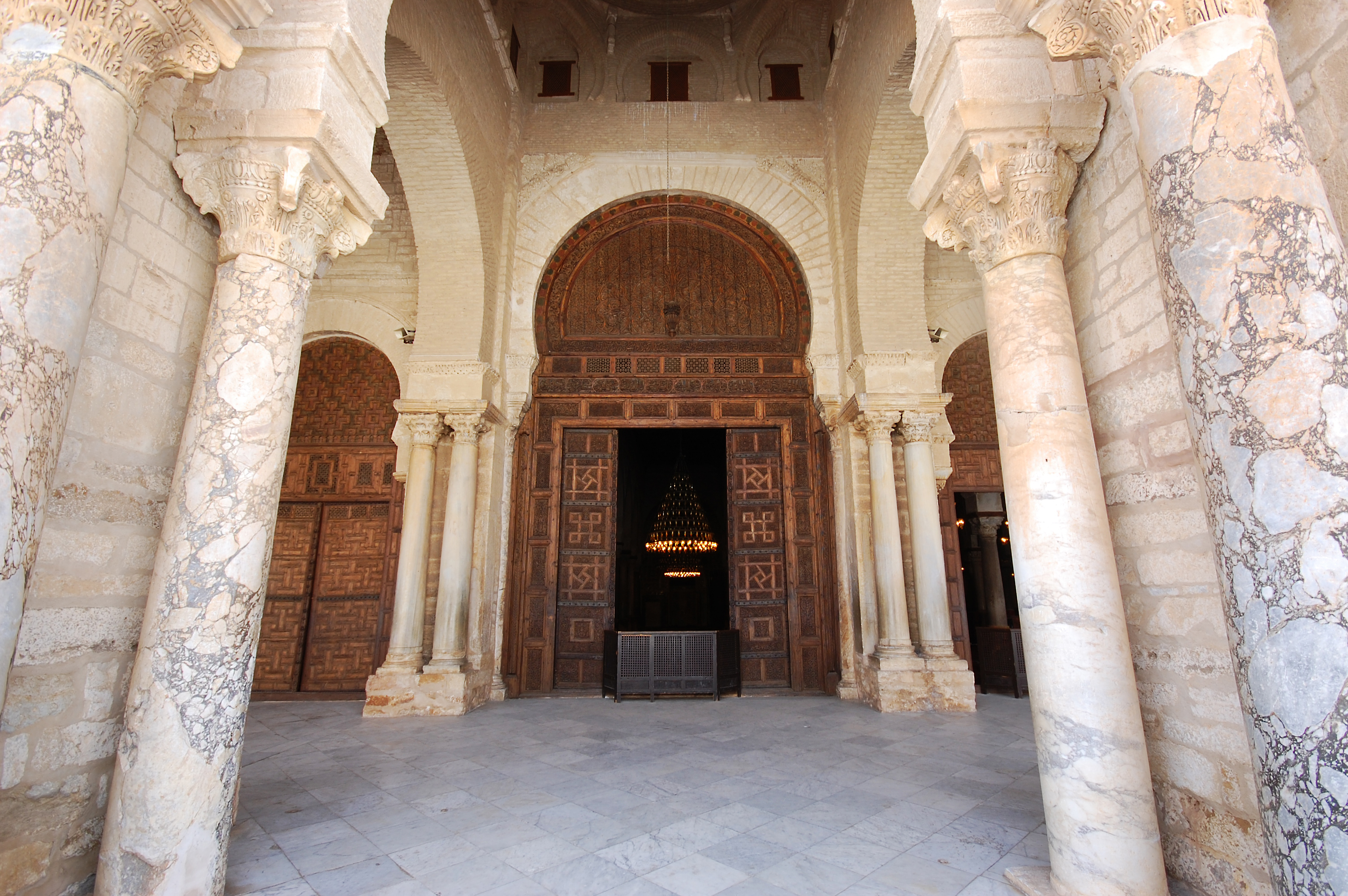 View of the most important door among the seventeen carved wooden doors of the prayer hall of the Great Mosque of Kairouan, in Tunisia.